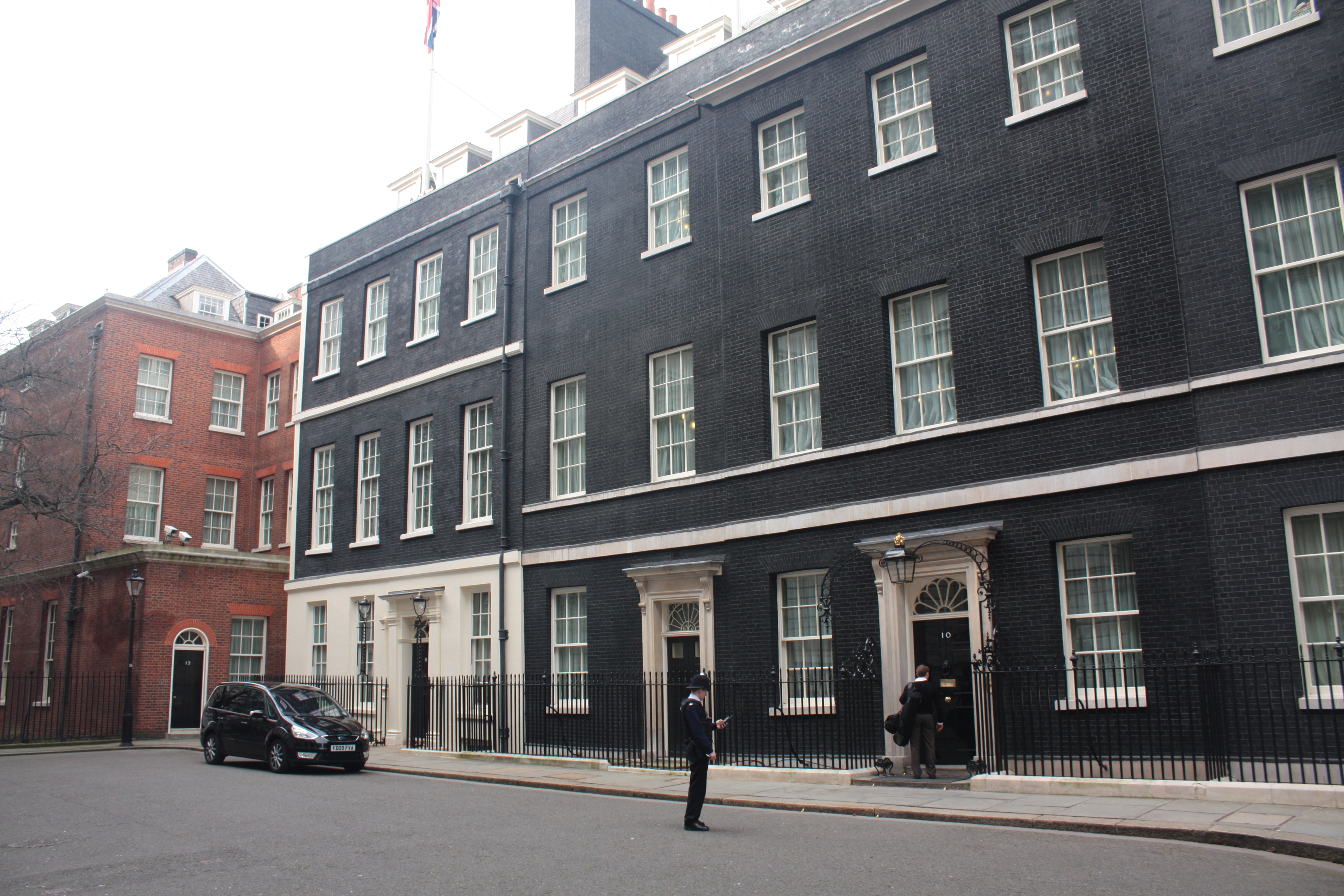 10 Downing Street, (grey brick). Also: 11 Downing (white brick); 12 Downing (red brick)